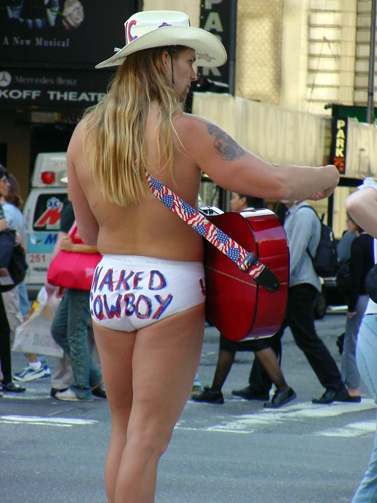 Robert John Burck, better known as the Naked Cowboy, is a New York City street performer and prominent fixture of Times Square.Naked Cowboy in Times Square